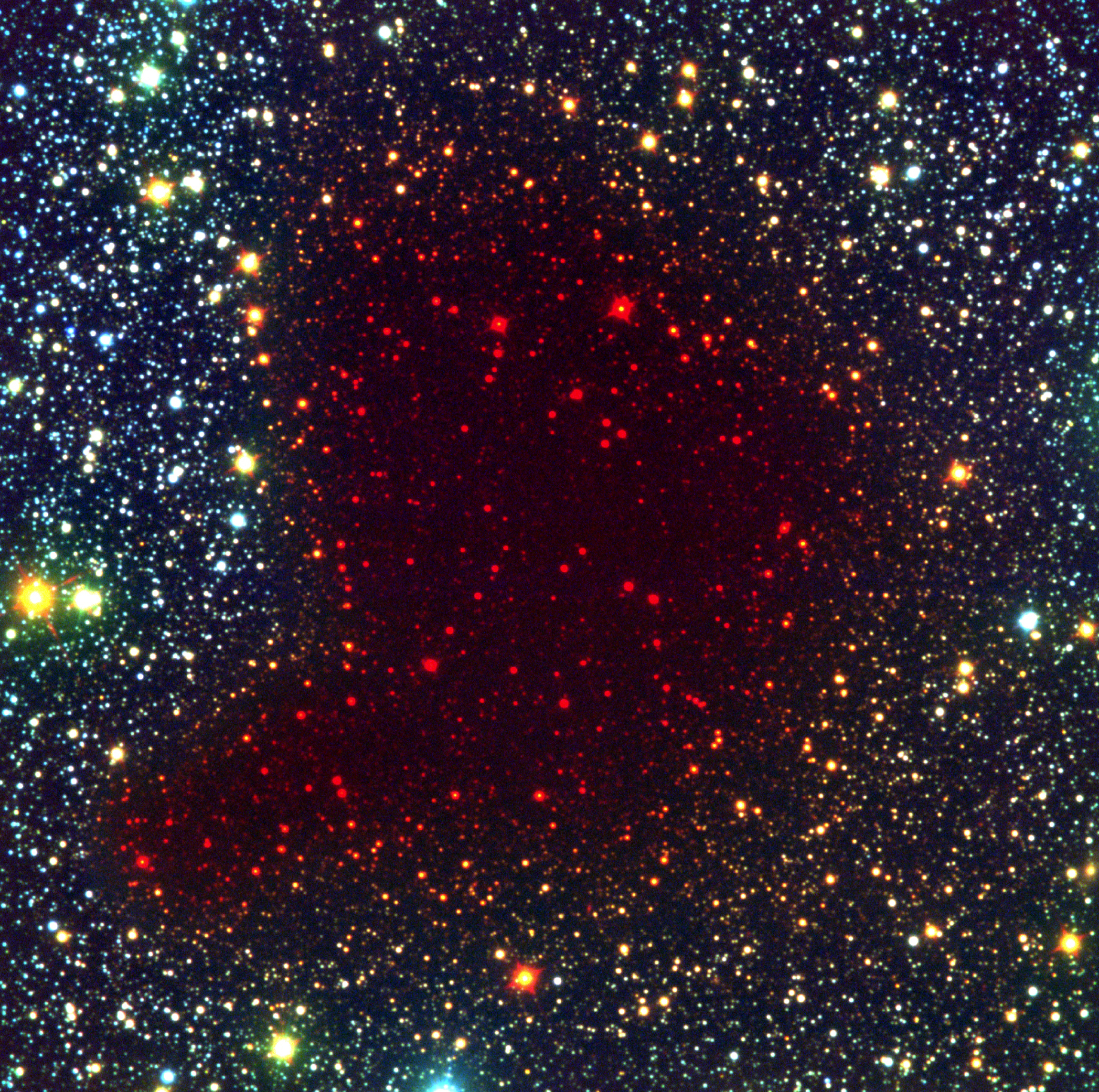 This view of the dark cloud B68, a so-called Bok globule, is a false-colour composite based on a (440nm) visible (here rendered as blue), a (768nm) near-infrared (green) and an (2.2μm) infrared (red) image.